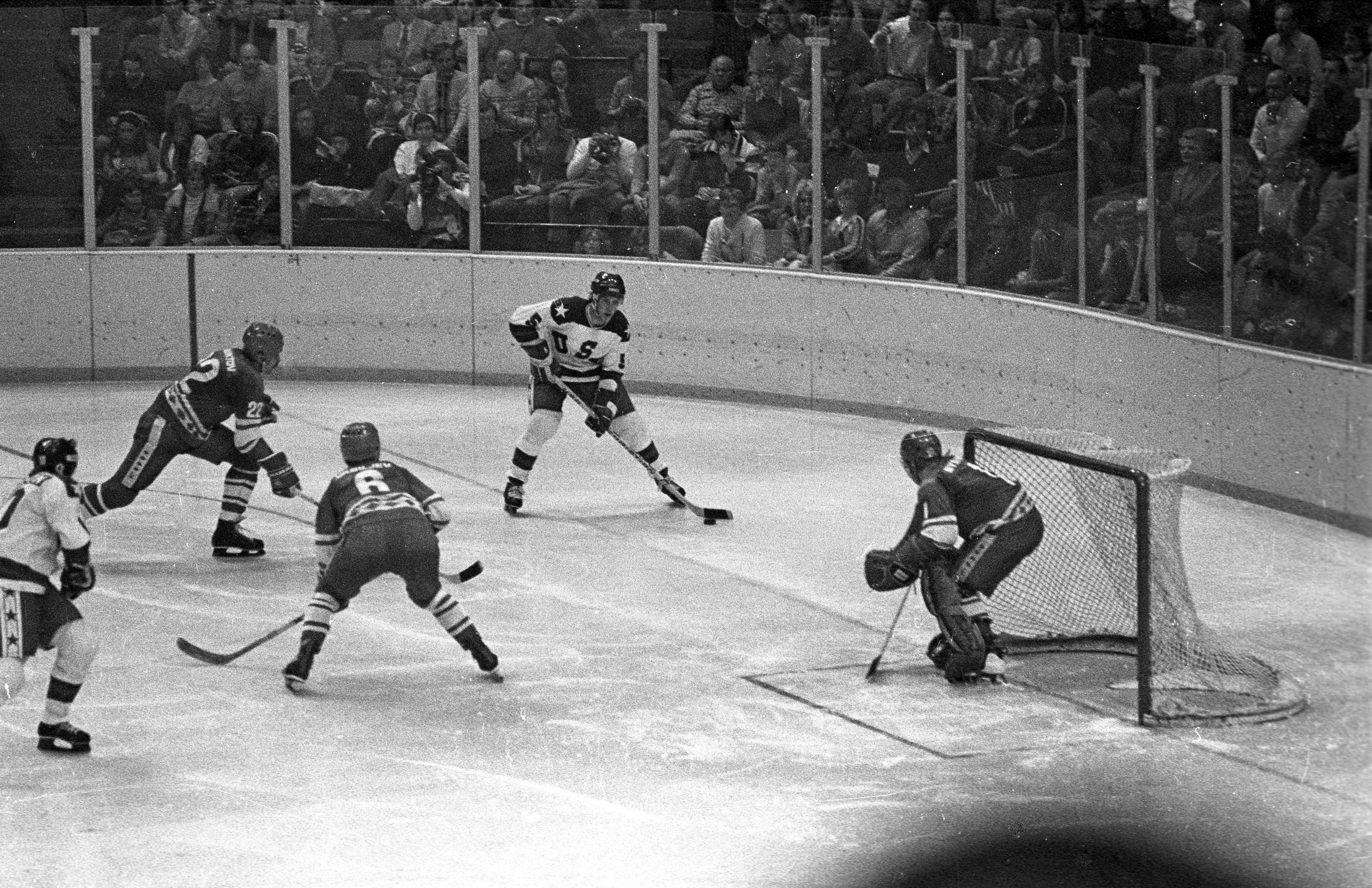 USA - Soviet Union match, Winter Olympics 1980. Mike Ramsey #5 with the puck, #22 Viktor Zhluktov; #6 Valeri Vasiliev